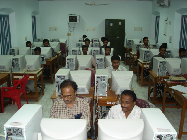 Picture of GECB's CADD Lab --Mexxian 2:40, 8 March 2007 (UTC)